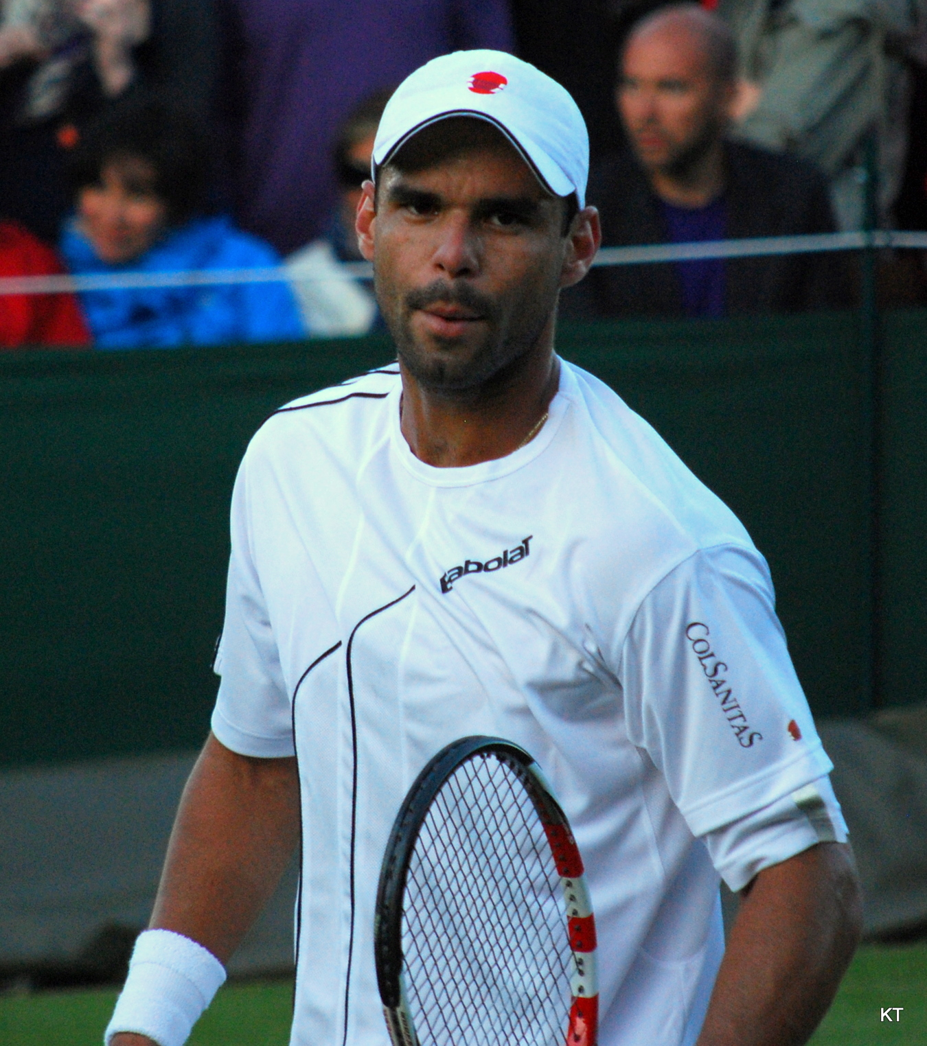 Alejandro Falla during his first round match with Jürgen Melzer. Melzer won 6-3, 3-6, 7-6, 7-6. Day 2 of Wimbledon 2011.